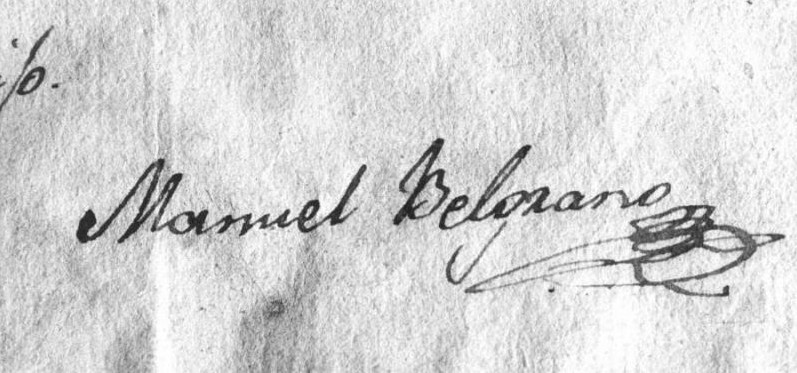 Manuel Belgrano's signature.